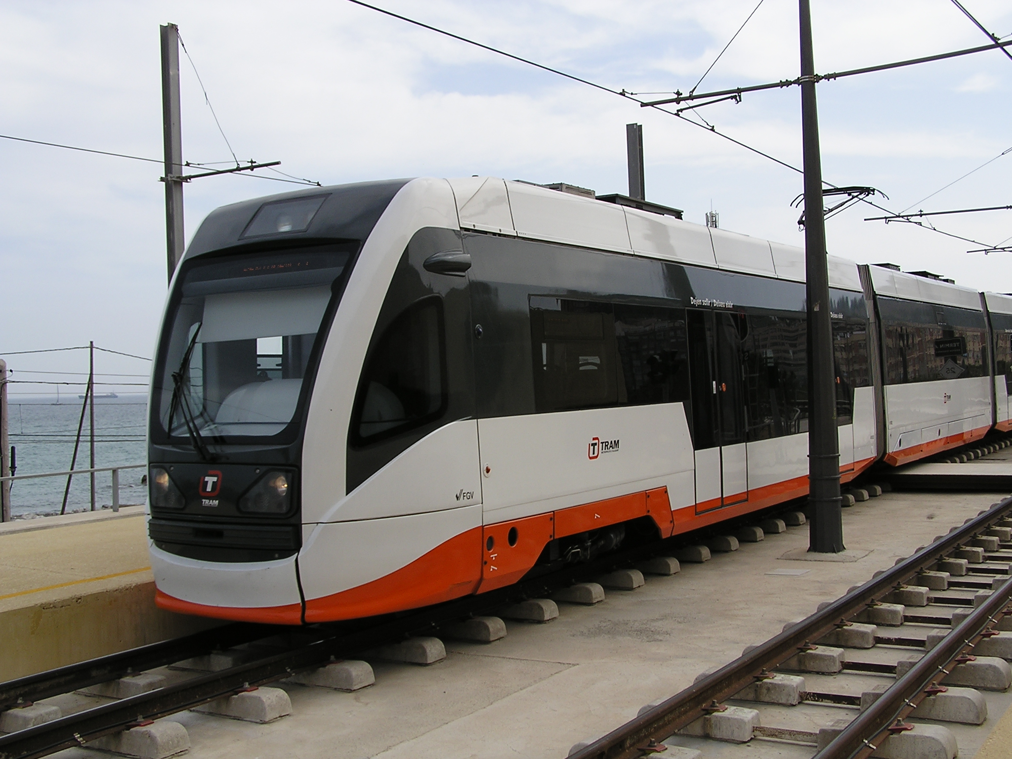 Sangueta. Tram Stop. Alicante Tram.